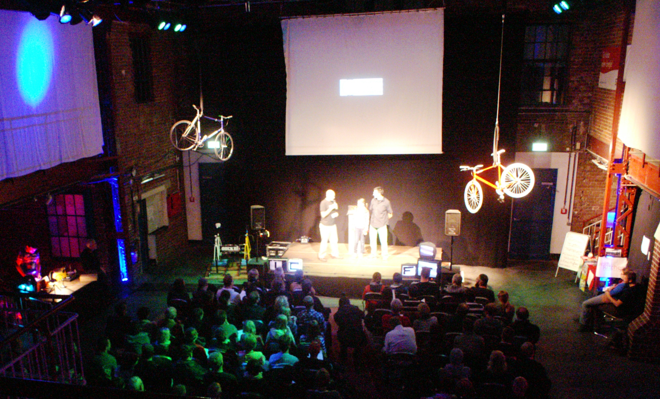 On stage interview at the 7th International Cycling Film Festival, Germany, Herne, Flottmann-Hallen, October 6, 2012.